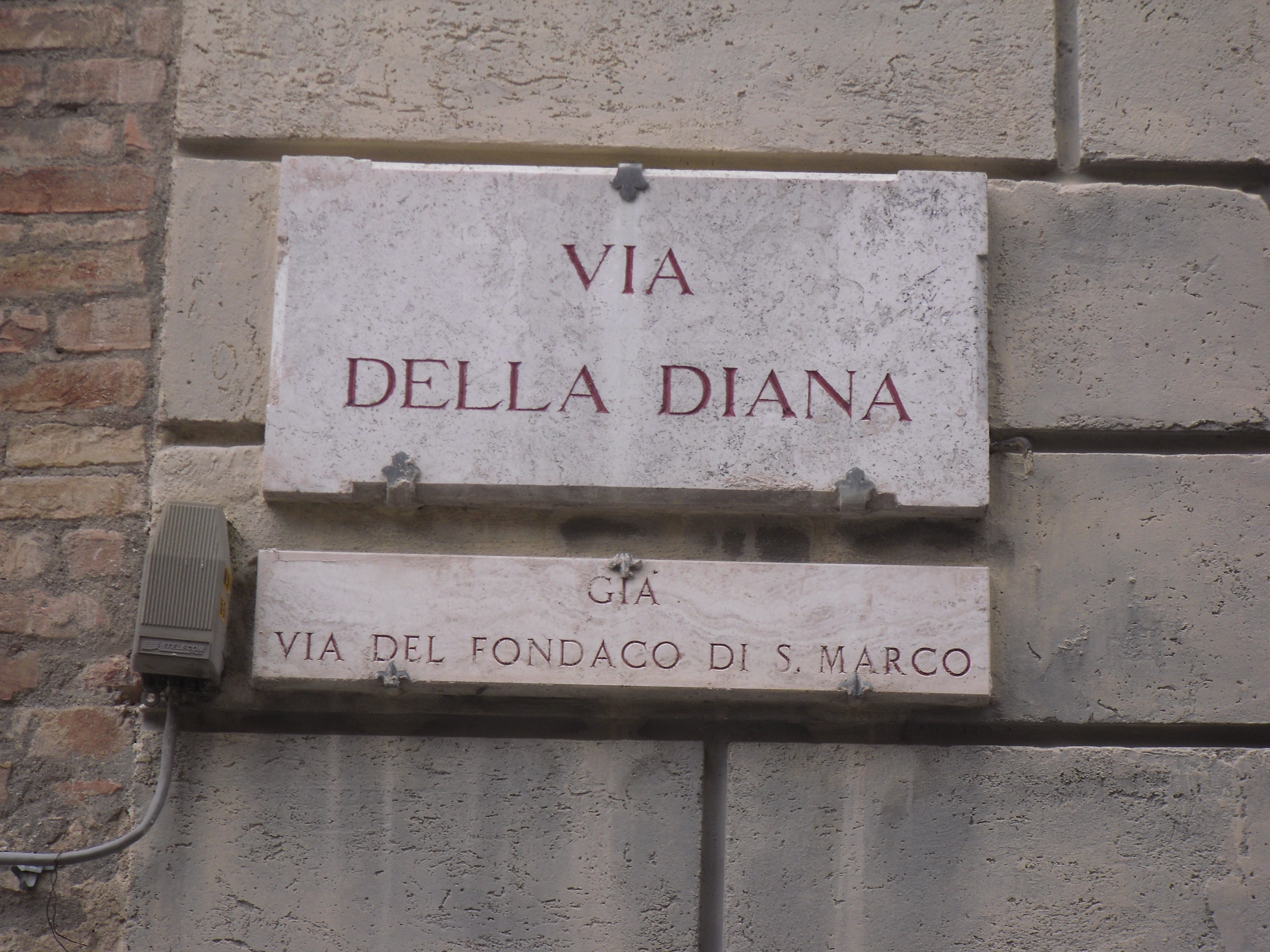 Plaque of "via della Diana", in Siena, Italy. The "Diana" is a hypothetical river supposed to flow under the town.